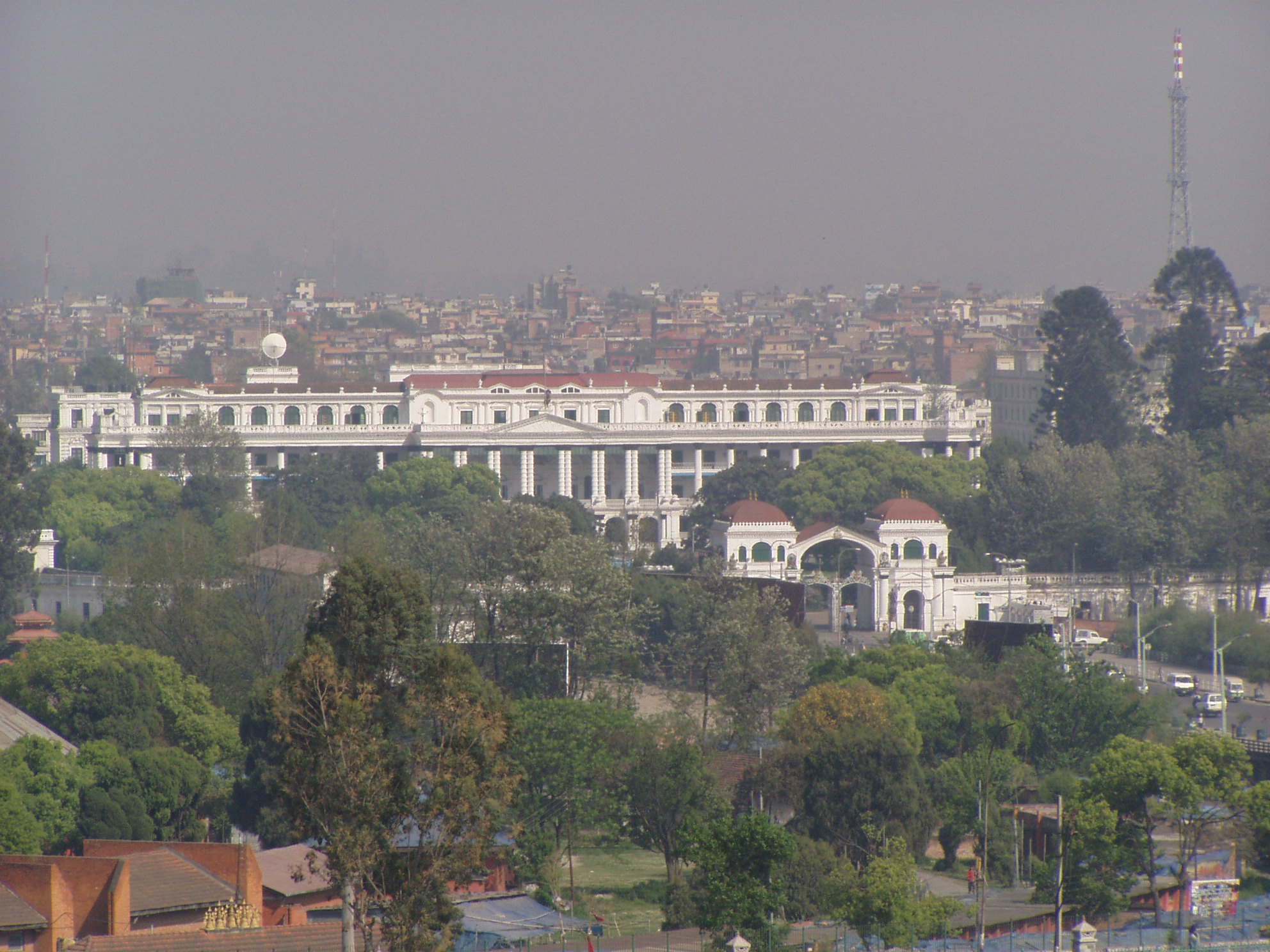 House of Parliament, Kathmandu, Nepal